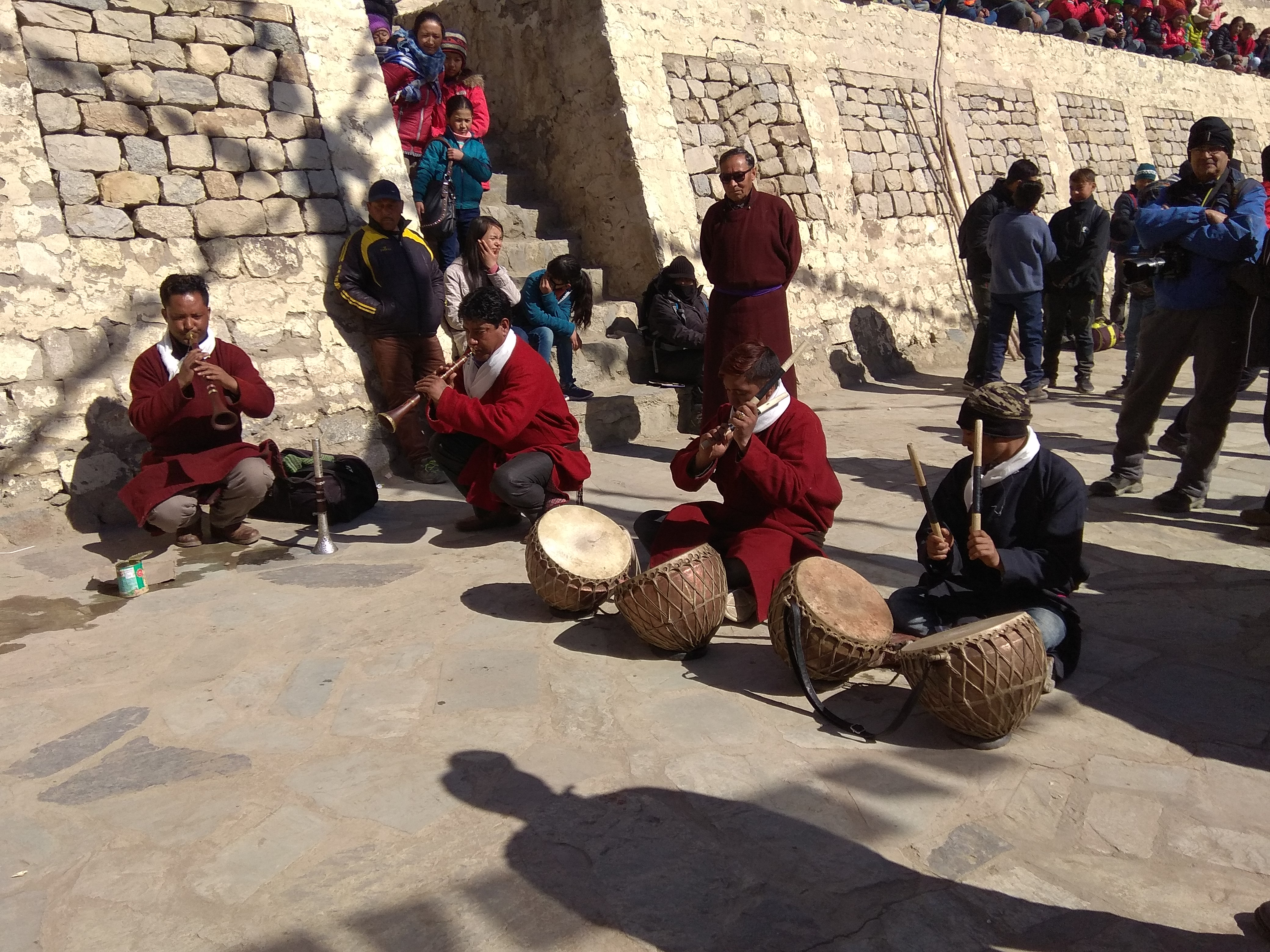 Dosmoche festival Leh Palace